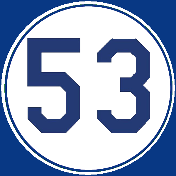 Don Drysdale